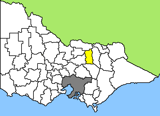 Map of Victoria/Australia, LGA of the Rural City of Benalla highlighted